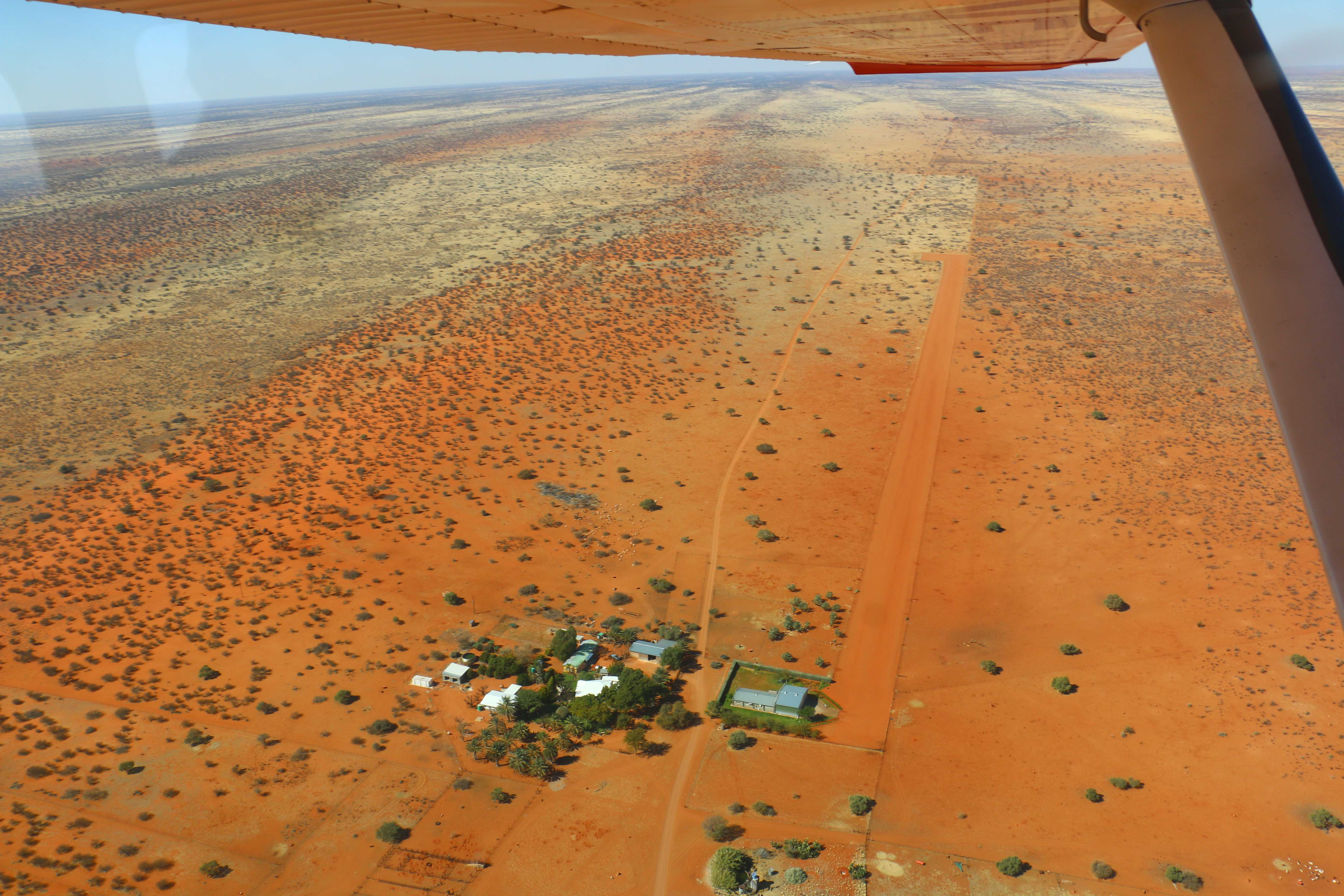 Farm Edelweiss 11 km west of Stampriet / Namibia